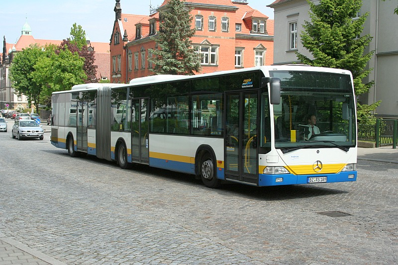 Mercedes-Benz Citaro O 530 GÜ city bus (#189) in Bautzen, Germany. Built 2002.